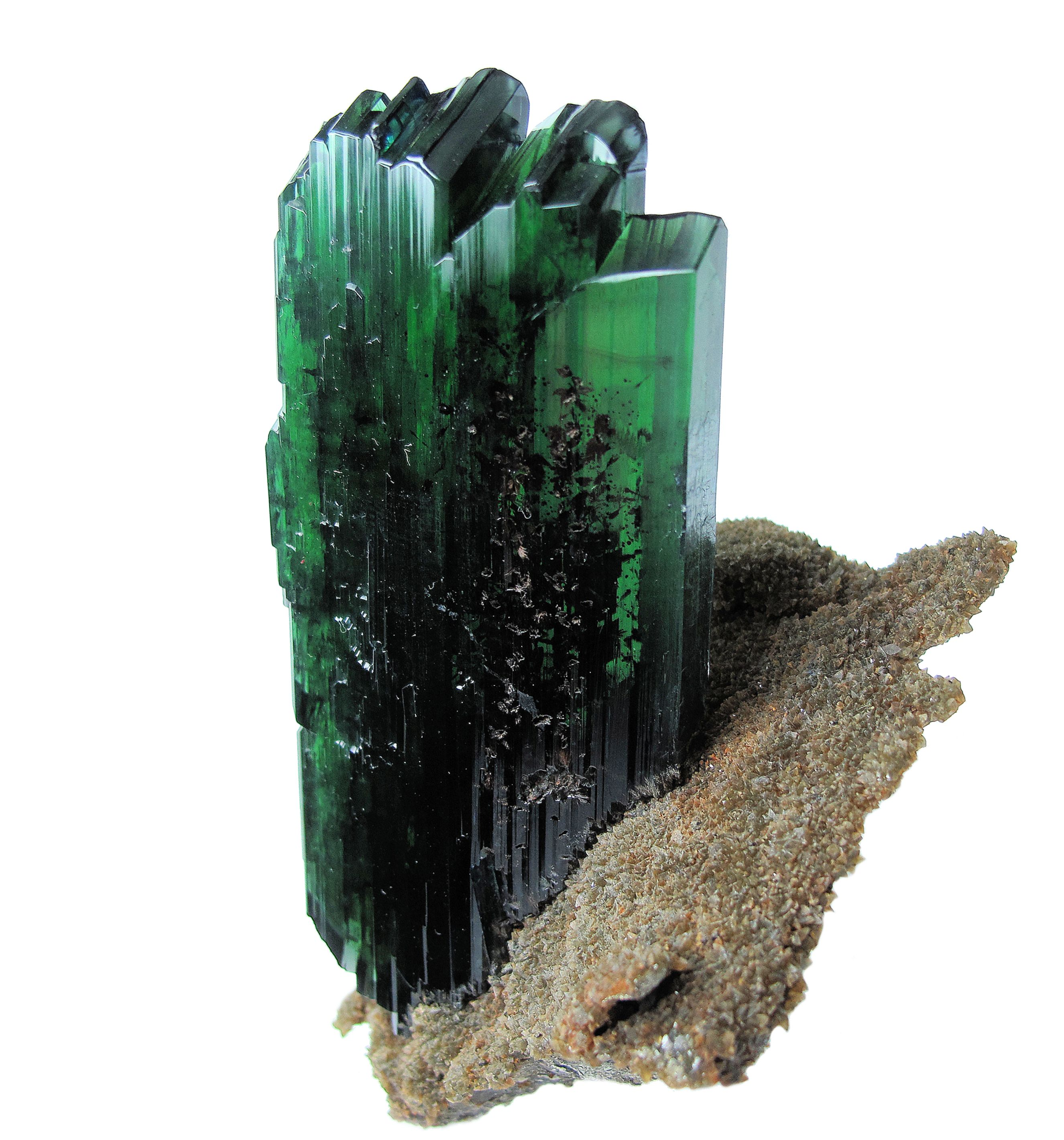 Vivianite tabular crystal with an irregular shape, transparent with some opacities and showing a deep green color, perched on a matrix made of siderite and pyrite. Undamaged. The crystal size is 82 mm x 38 mm x 11 mm, and the matrix 90 mm x 56 mm. Weight: 208 g. From a new find in year 2013. From Huanuni mine, Huanuni, Dalence Province, Oruro Department, Bolivia